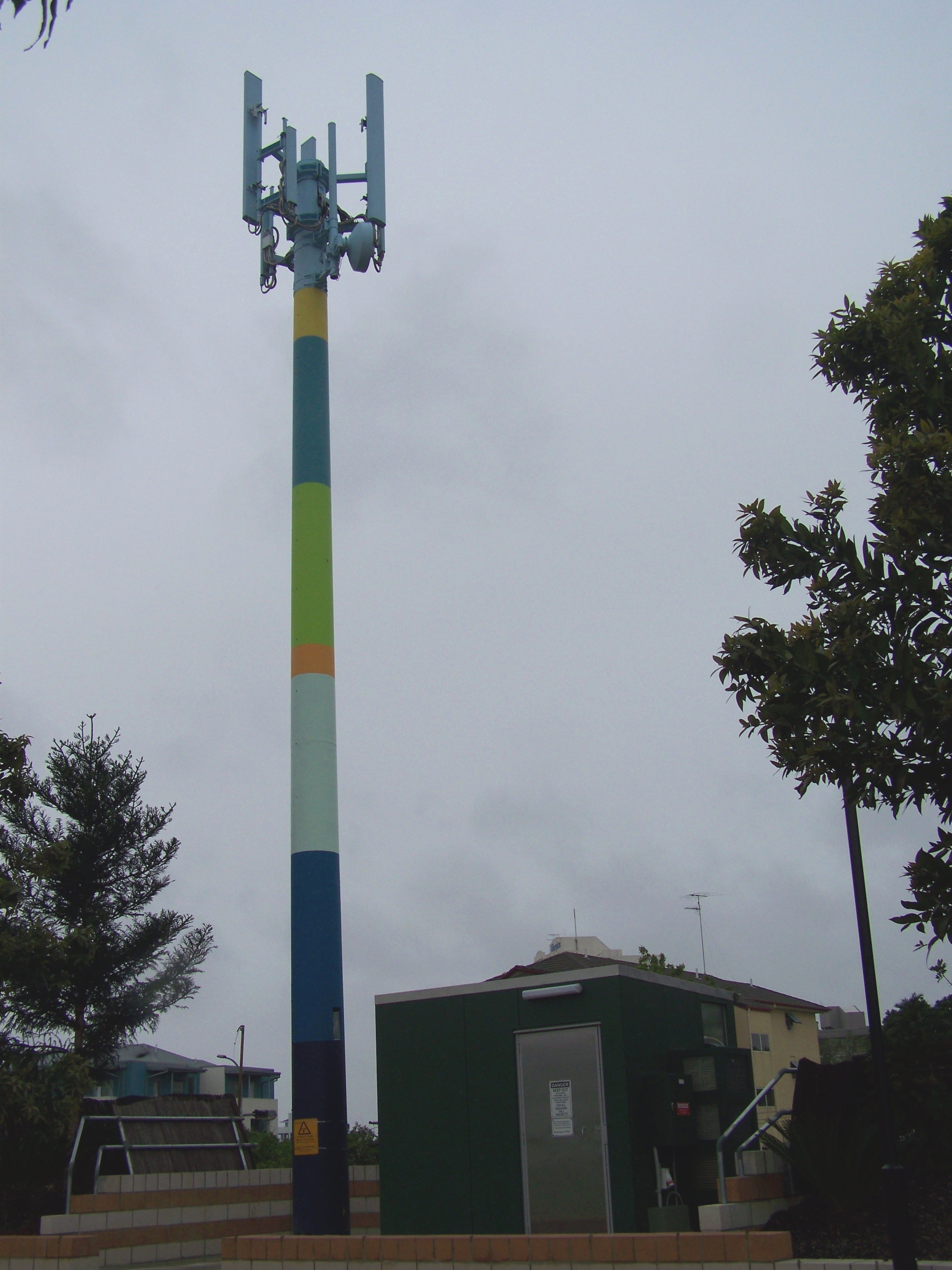 A mobile phone tower in a park in Kangaroo Point, Queensland painted to look like an Aboriginal talking stick.